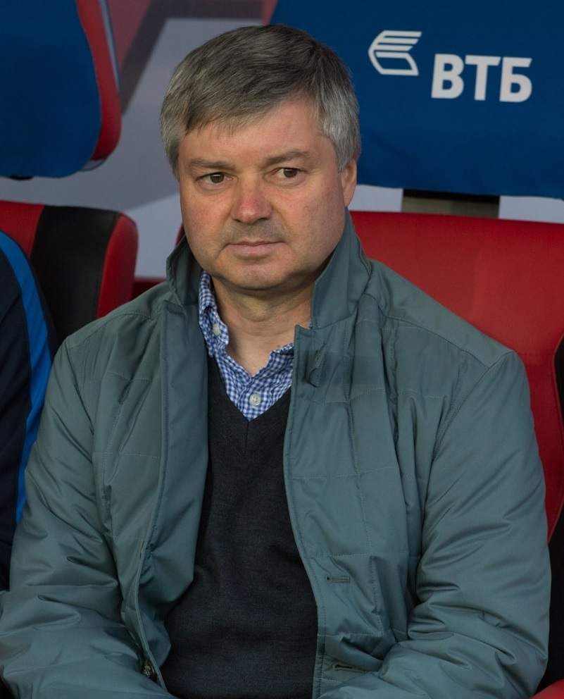 Sergei Chikishev coaching FC Dynamo Moscow in a game against FC Rostov on 12 May 2016.